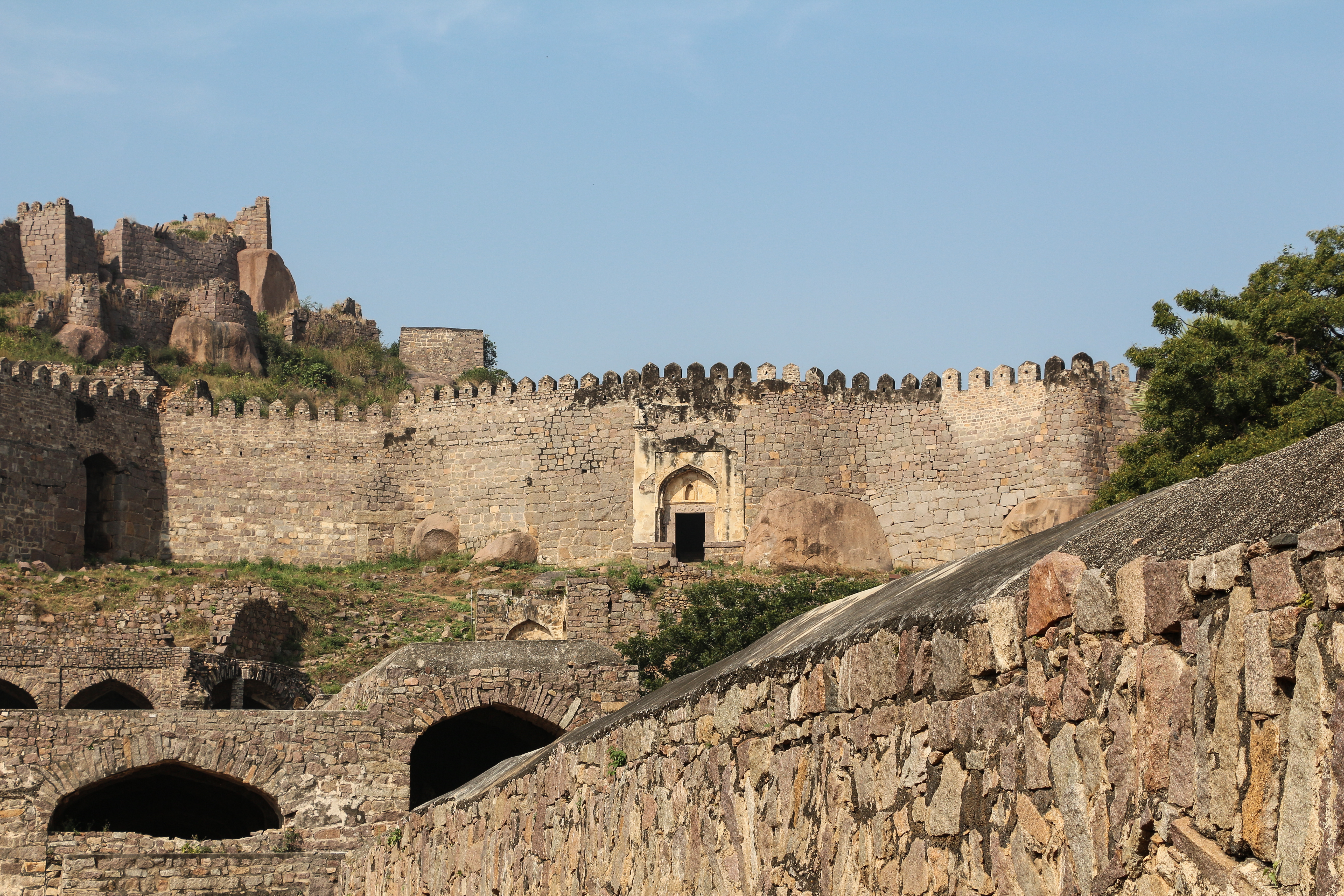 A gate at the Golconda Fort, India